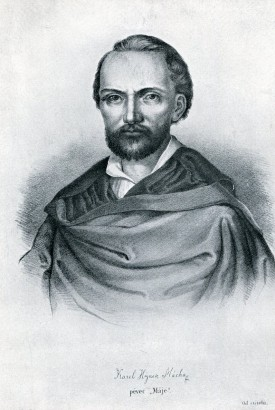 František Václav Šír: Karel Hynek Mácha, lithography.